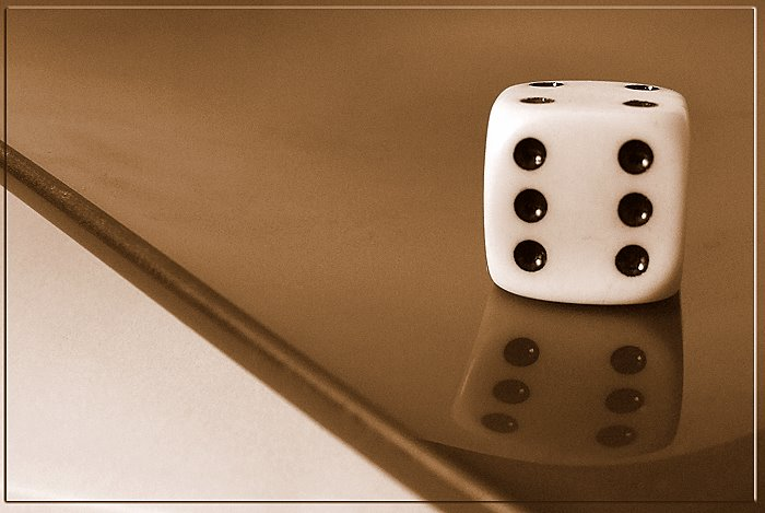 A dice